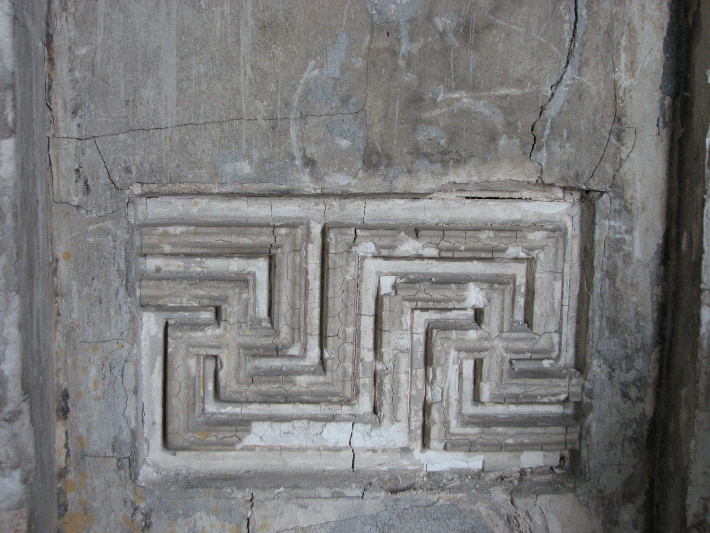 Gatchina Palace, Chesmen gallery